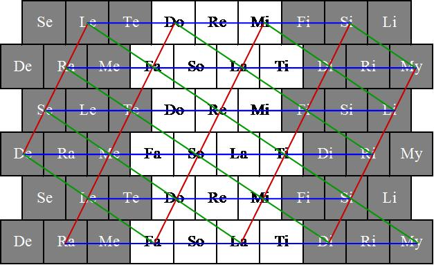 QWERTY-aligned tonnetz of the syntonic temperament